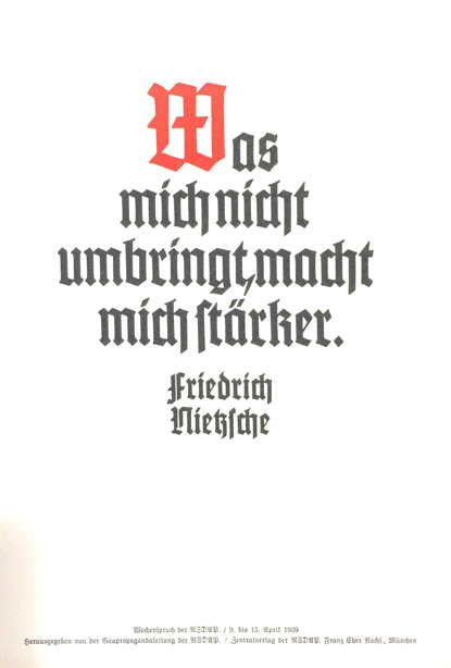 "Whatever does not kill me makes me stronger." — Nietzsche